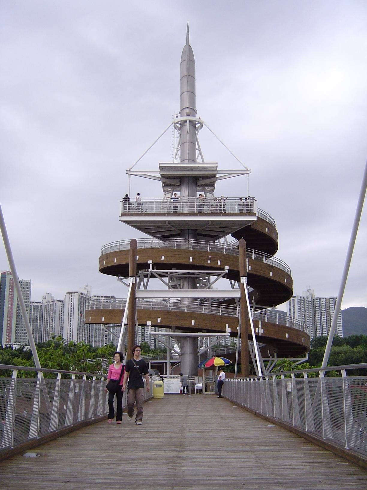 User:Tpwfp ws (Tai Po Waterfront Park).